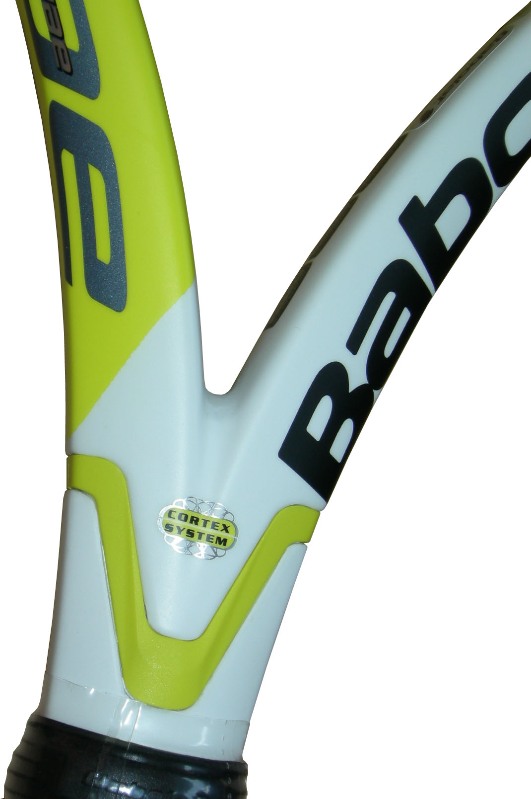 Cortex Damping System - Racquet Babolat Aeropro Drive. Cortex vibration absorber system.